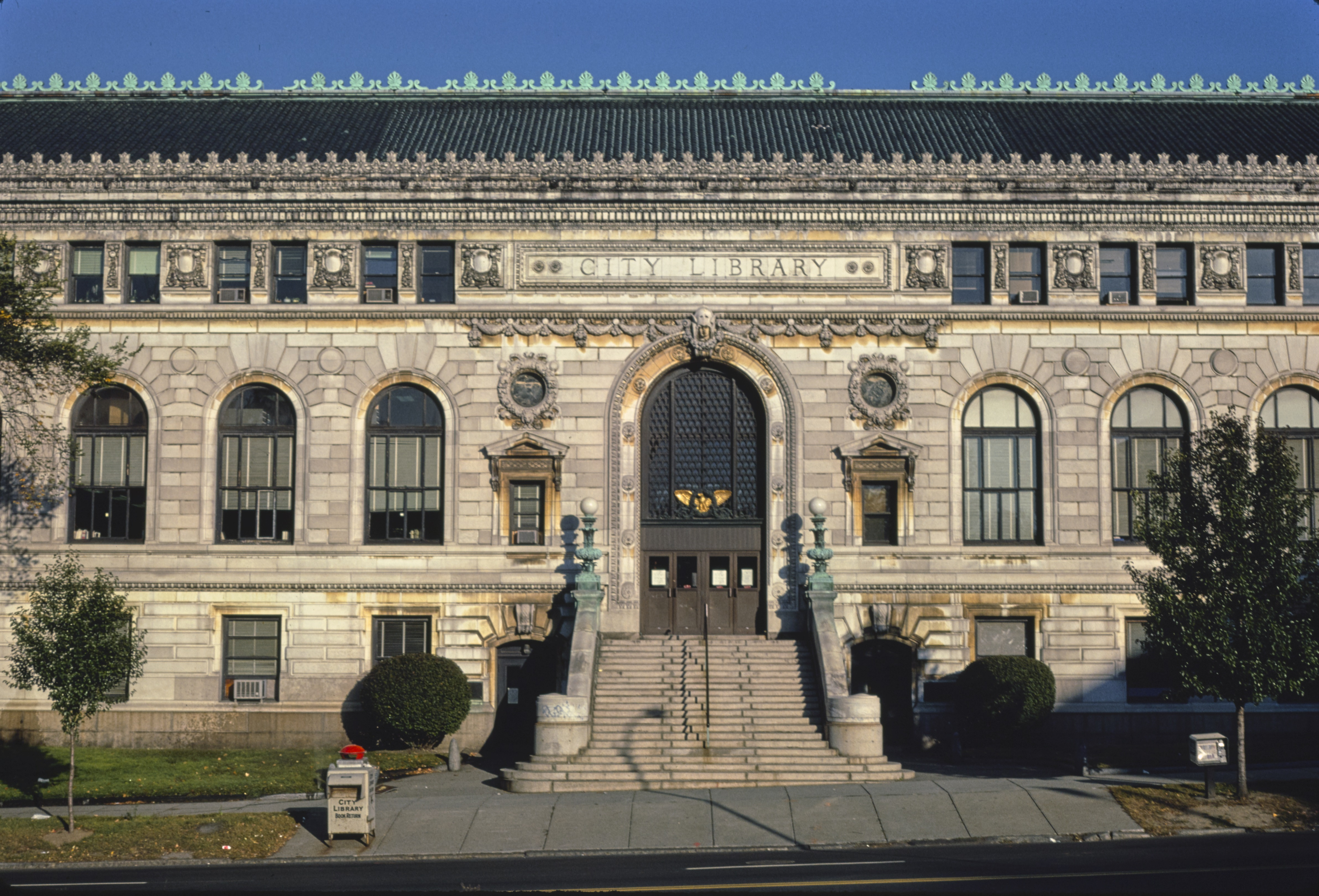 The grand front entrance of the Springfield City Library Central Branch in Springfield, Massachusetts, designed by Edward Lippincott Tilton and built in 1912.